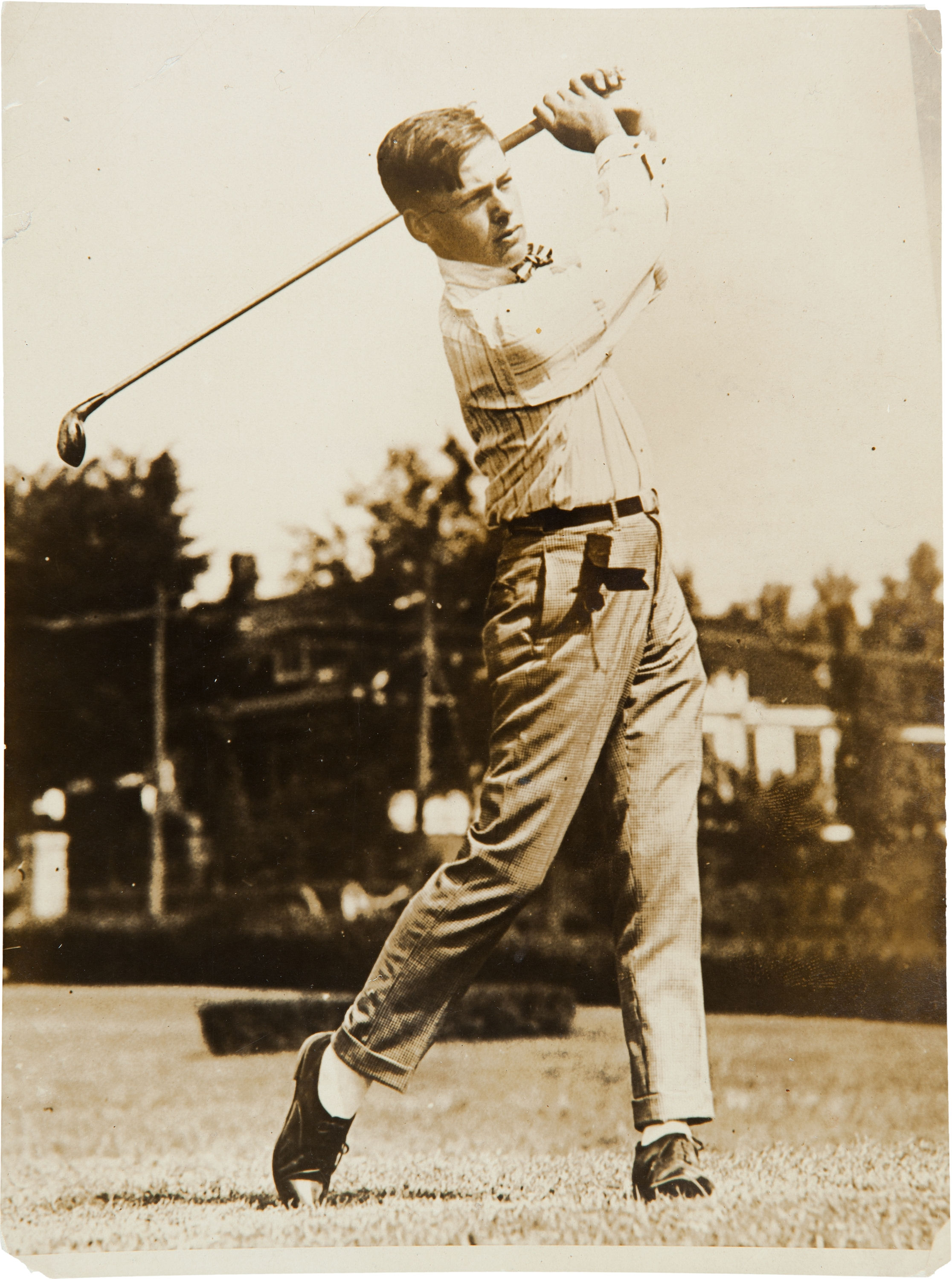 Bobby Jones